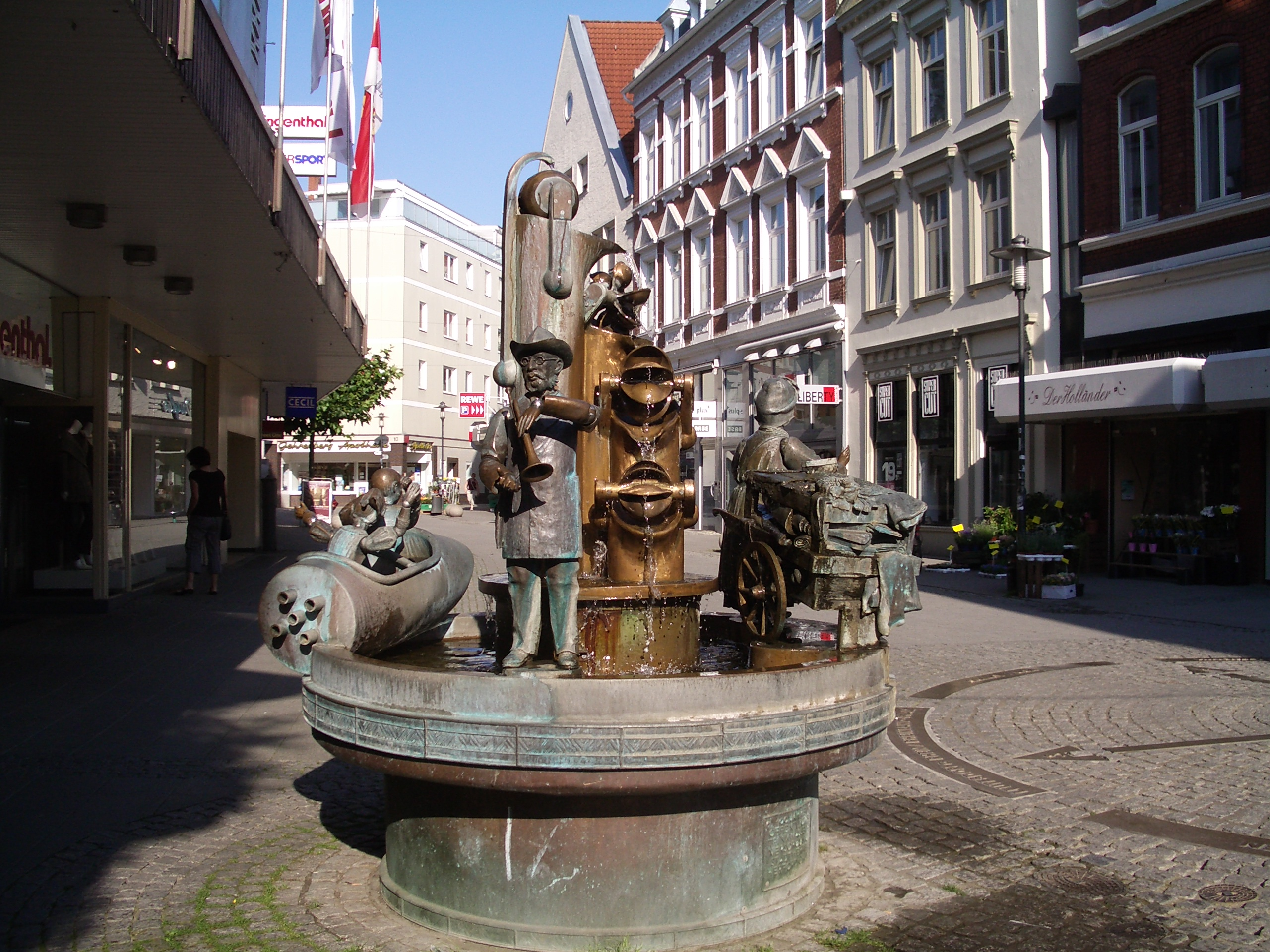 Fountain in town of Herford, District of Herford, North Rhine-Westphalia, Germany.